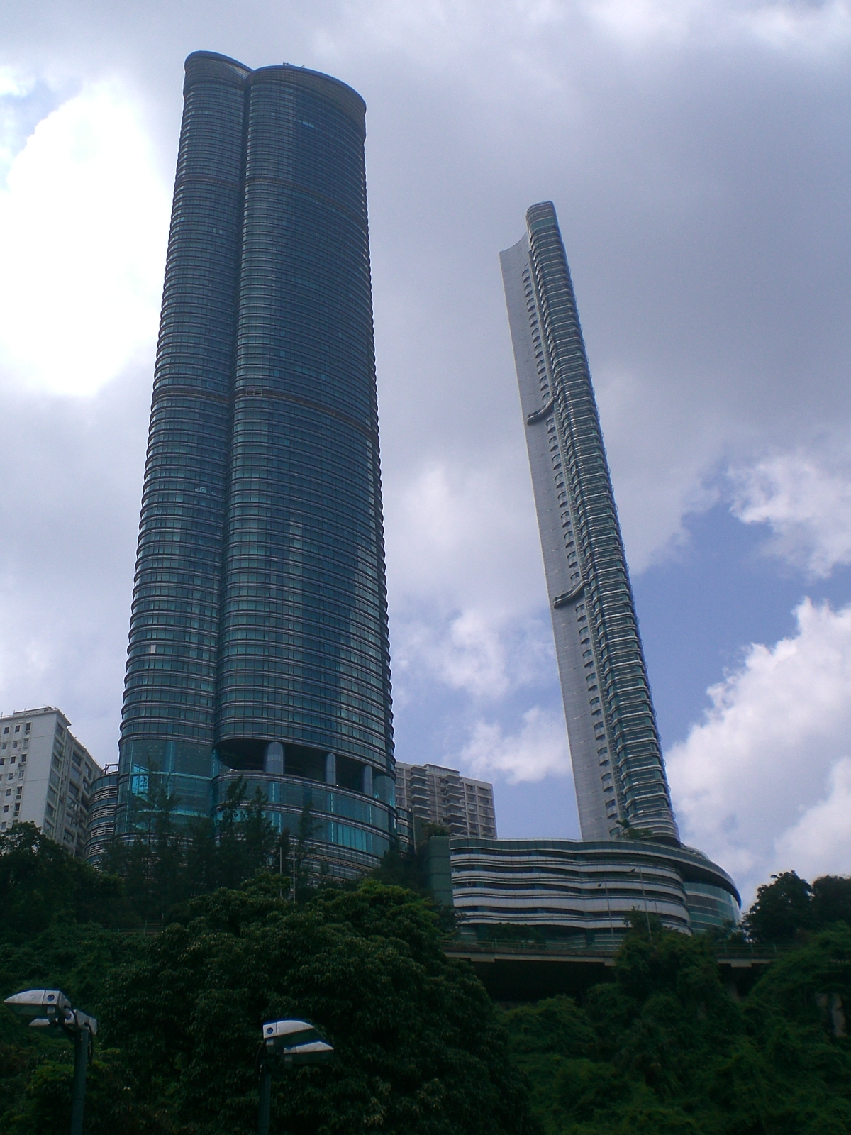 香港賽馬會跑馬地會所仰望山上司徒拔道的曉廬en:Highcliff&御峰en:The Summit (Hong Kong)